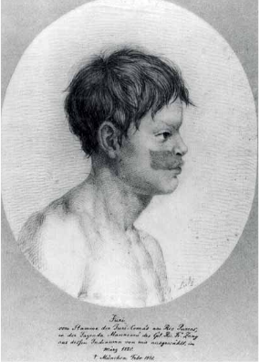 Drawing of Juri by P. Lutz with wrong date of death hand written by Martius. Pencil, lips slightly red. (Bayerische Staatsbibliothek, Martiusiana, I, A, 1,7, size of original 55.5×47.5 cm)